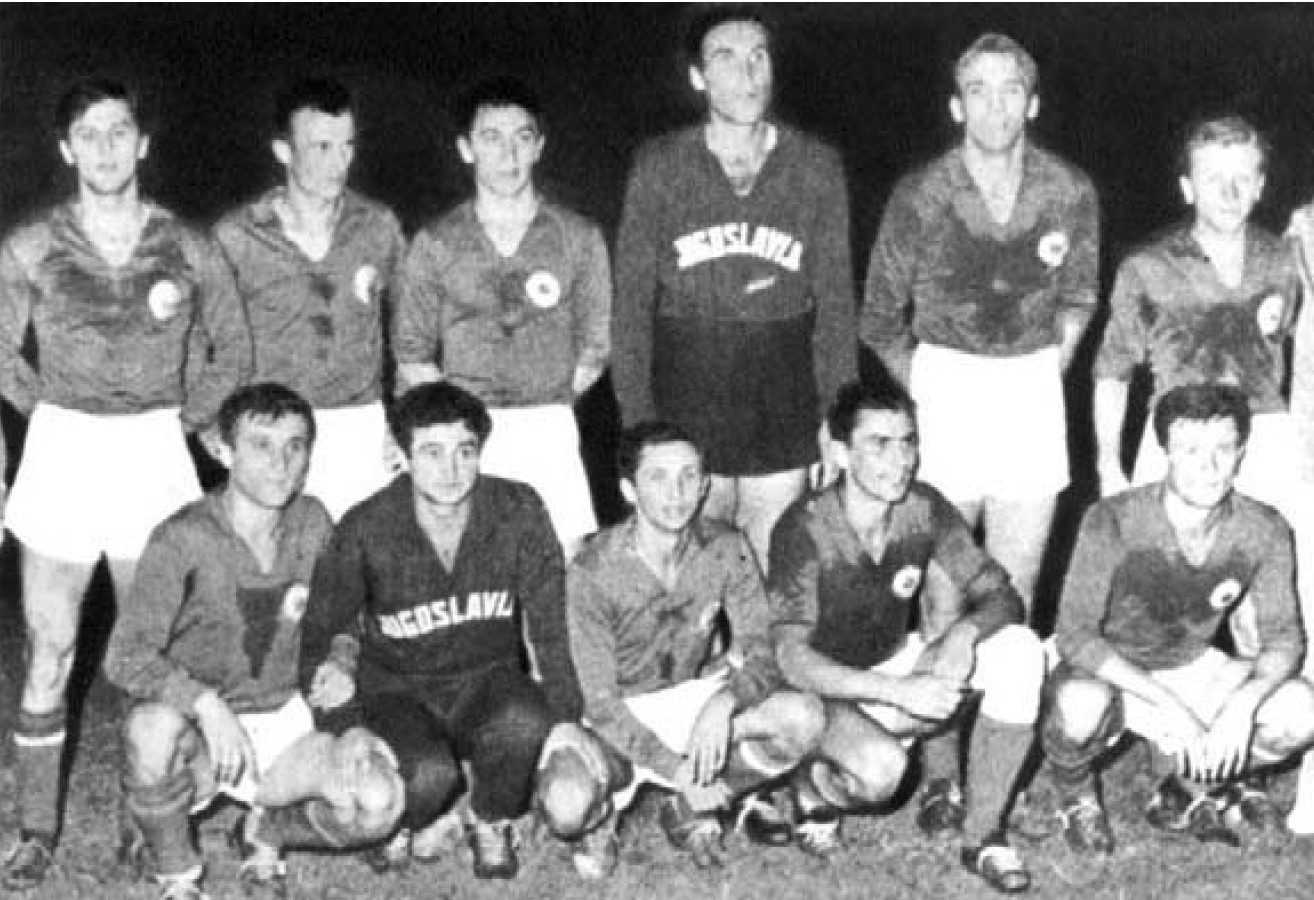 Yugoslavia national association football team at the Stadio Flaminio in Rome, Italy, after the 1960 Summer Olympics football tournament final against Denmark; Yugoslavia eventually won 3-1 and won the gold medal.